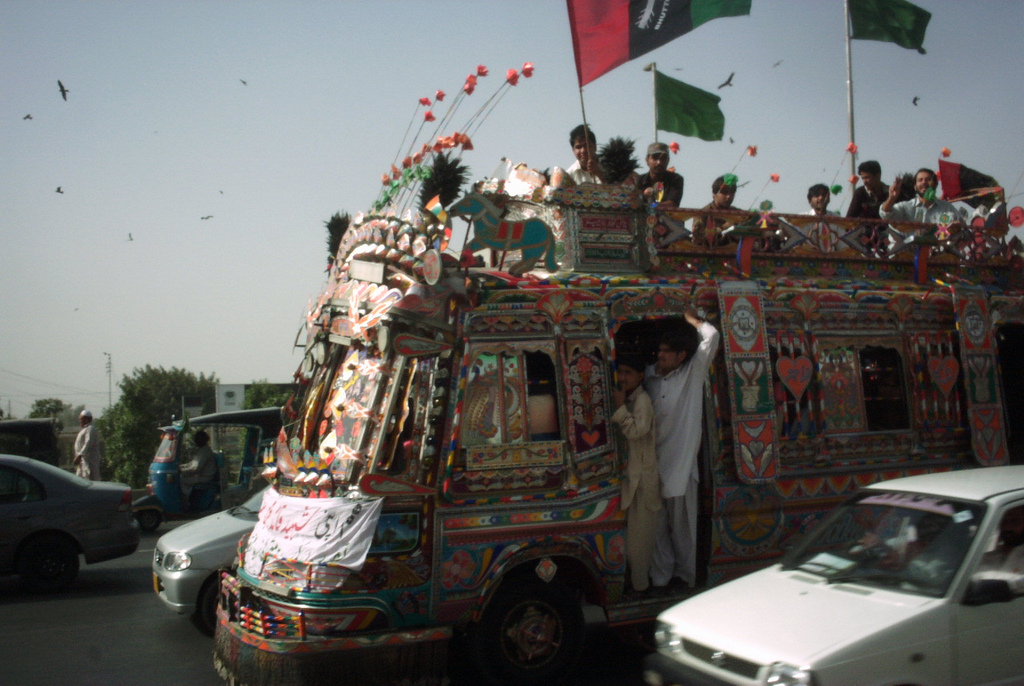 March 2009 PPP Workers Protest Against "Desecration of Benazir Bhutto's monument in Rawalpindi" at Jail Chowrangi Karachi